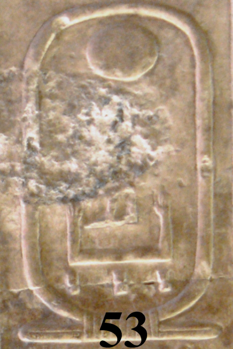 Abydos King List, cartouche n. 53: Kakaure